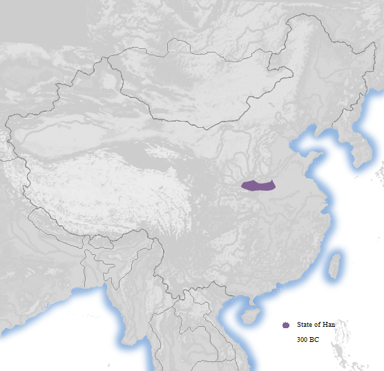 Map of Han(State) circa 300 BCE.